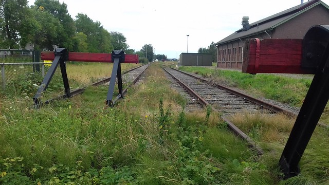 Buffer stops and (unused) goods shed at the northern terminus of Belgian Railway Line 55 at Terneuzen (the Netherlands).